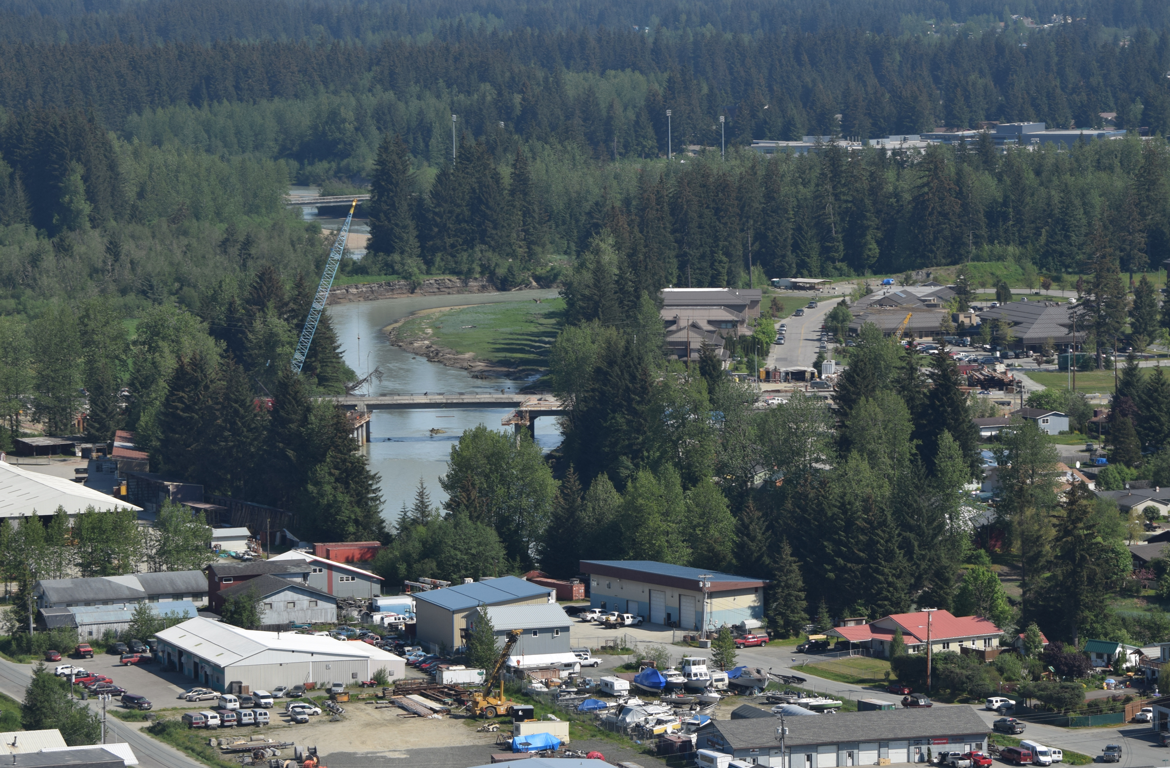 Juneau's Brotherhood Bridge over the Mendenhall River is seen under expansion and renovation Friday, May 22, 2015. (James Brooks photo)